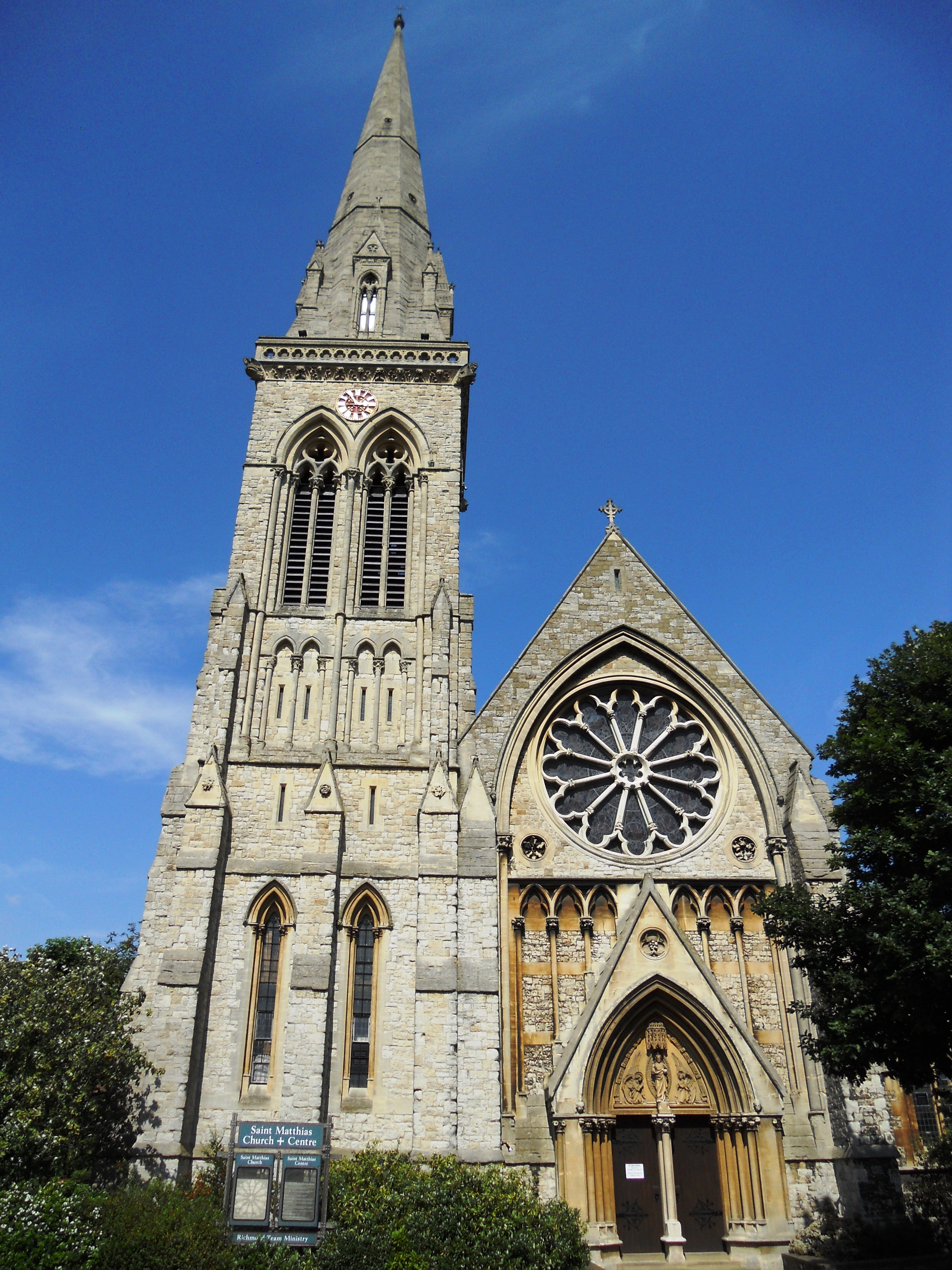 Front view of St Matthias Church, Richmond, Greater London